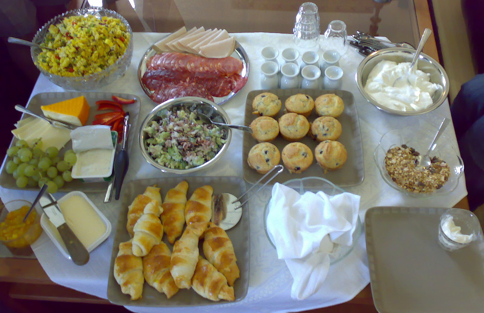 Sveas restaurant brunch